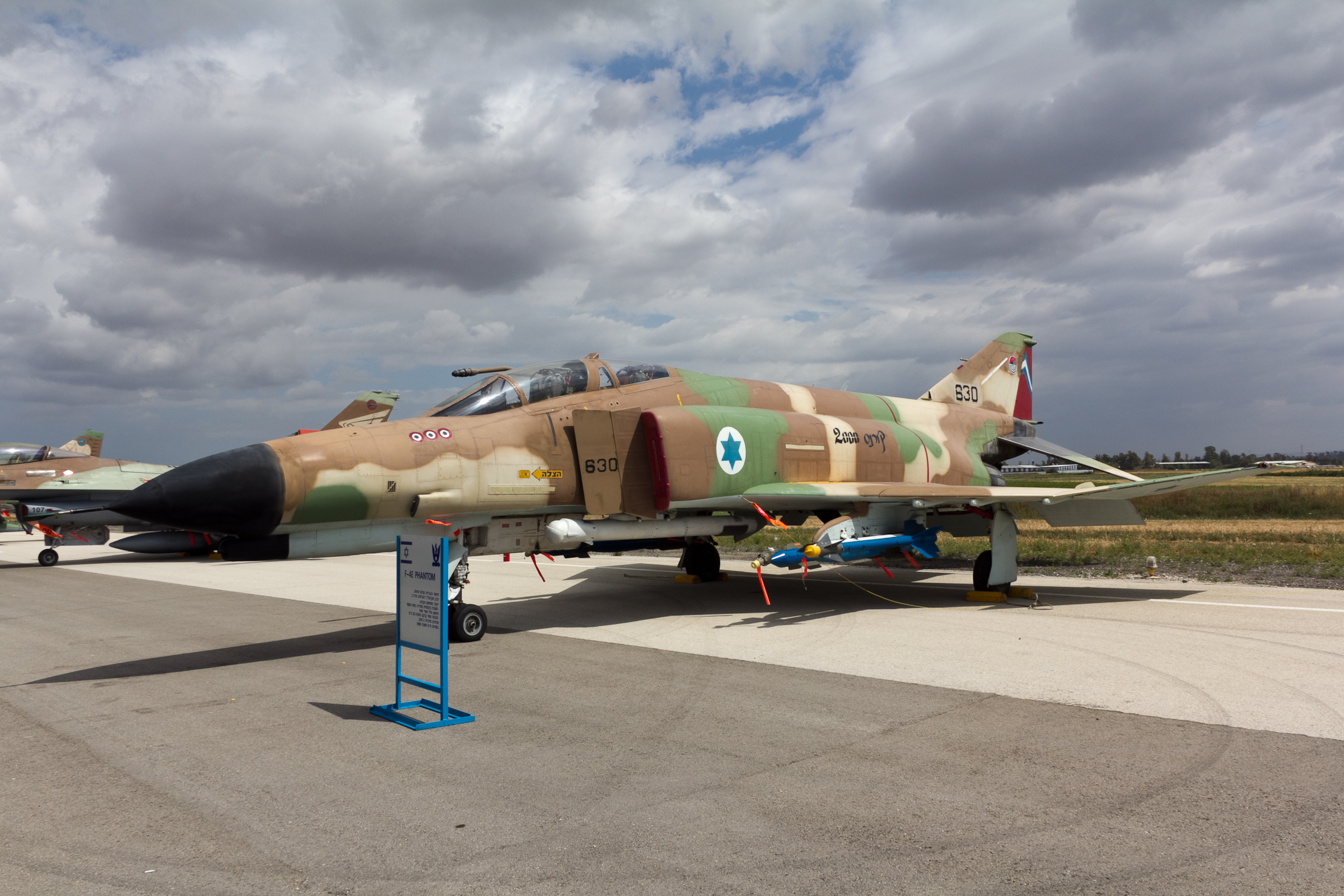 Israeli Air Force 201 Squadron F-4E Phantom II at Tel Nof, Independence Day 2013